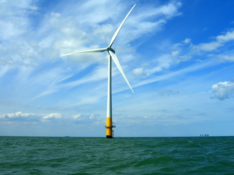 Vestas V90-3MW wind turbine of the Kentish Flats Offshore Wind Farm, Thames Estuary.